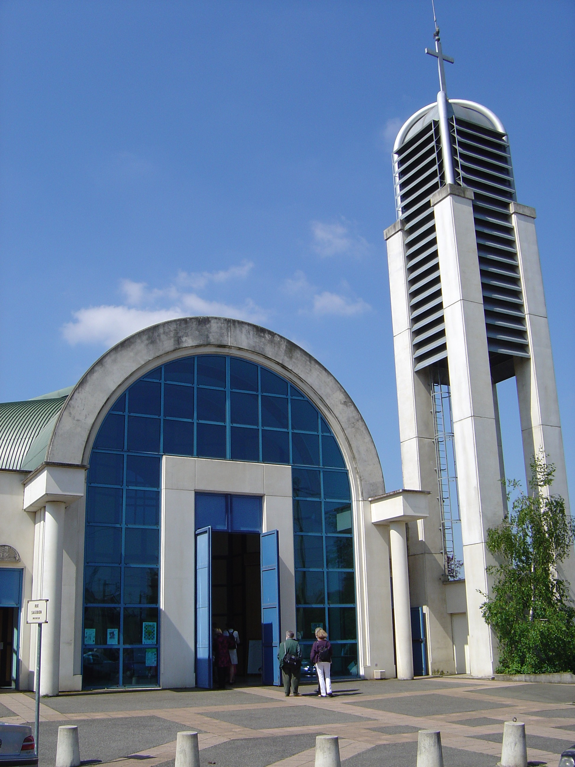 Saint Bertrand's church, in Le Mans, France.